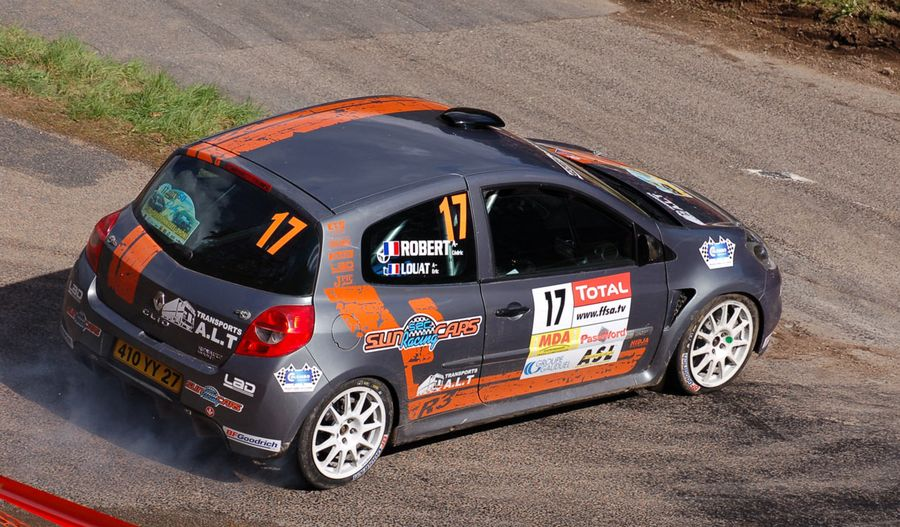 Clio RS R3 Rallycar